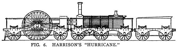 drawing of GWR "Hurricane" locomotive